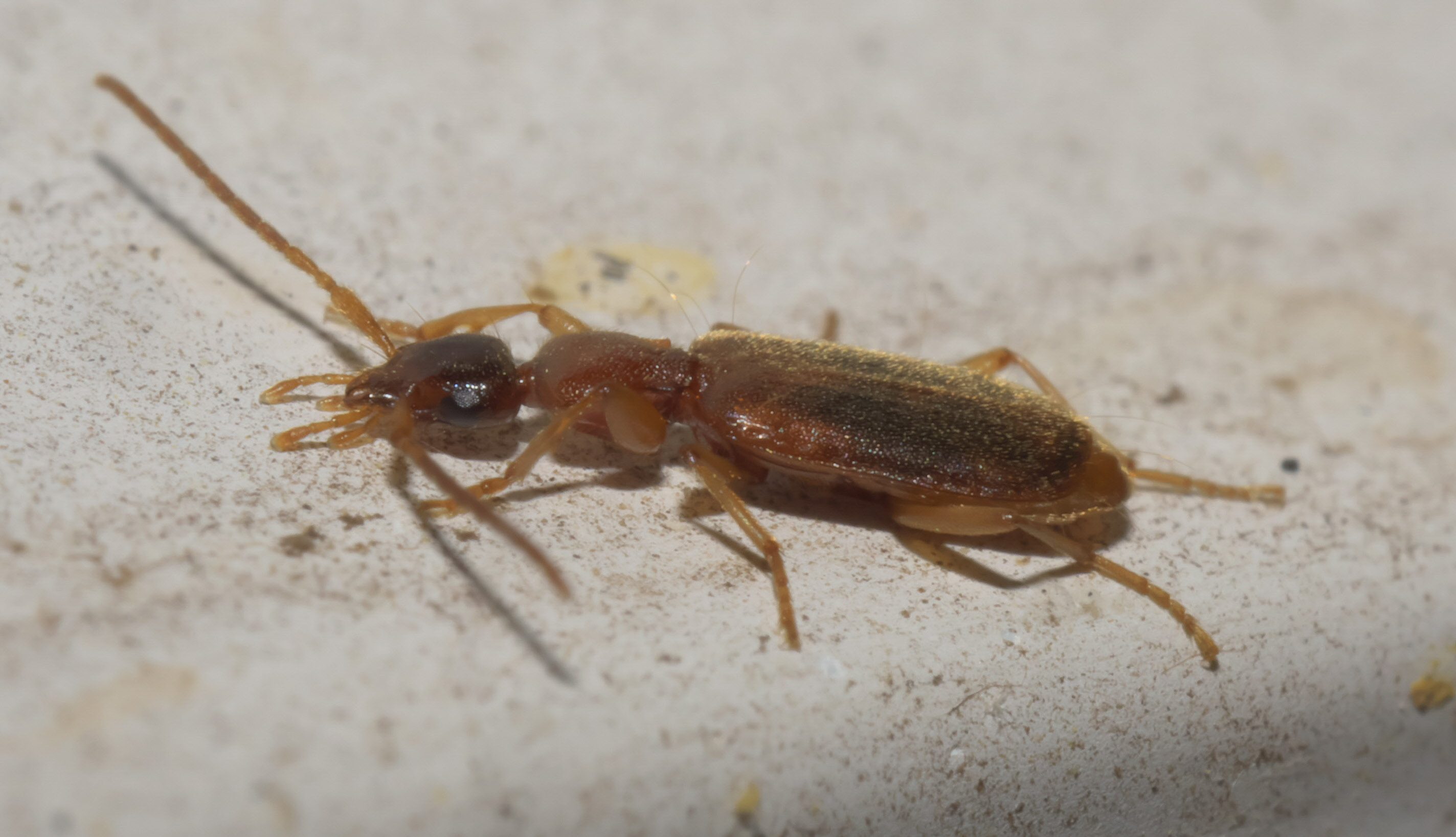 Zuphium americanum, Family: Ground Beetles, Size: 5.6 mm, ID Confidence: 88